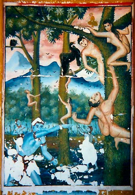 Photograph of mural on a Buddhist temple in northern Thailand, taken 1998